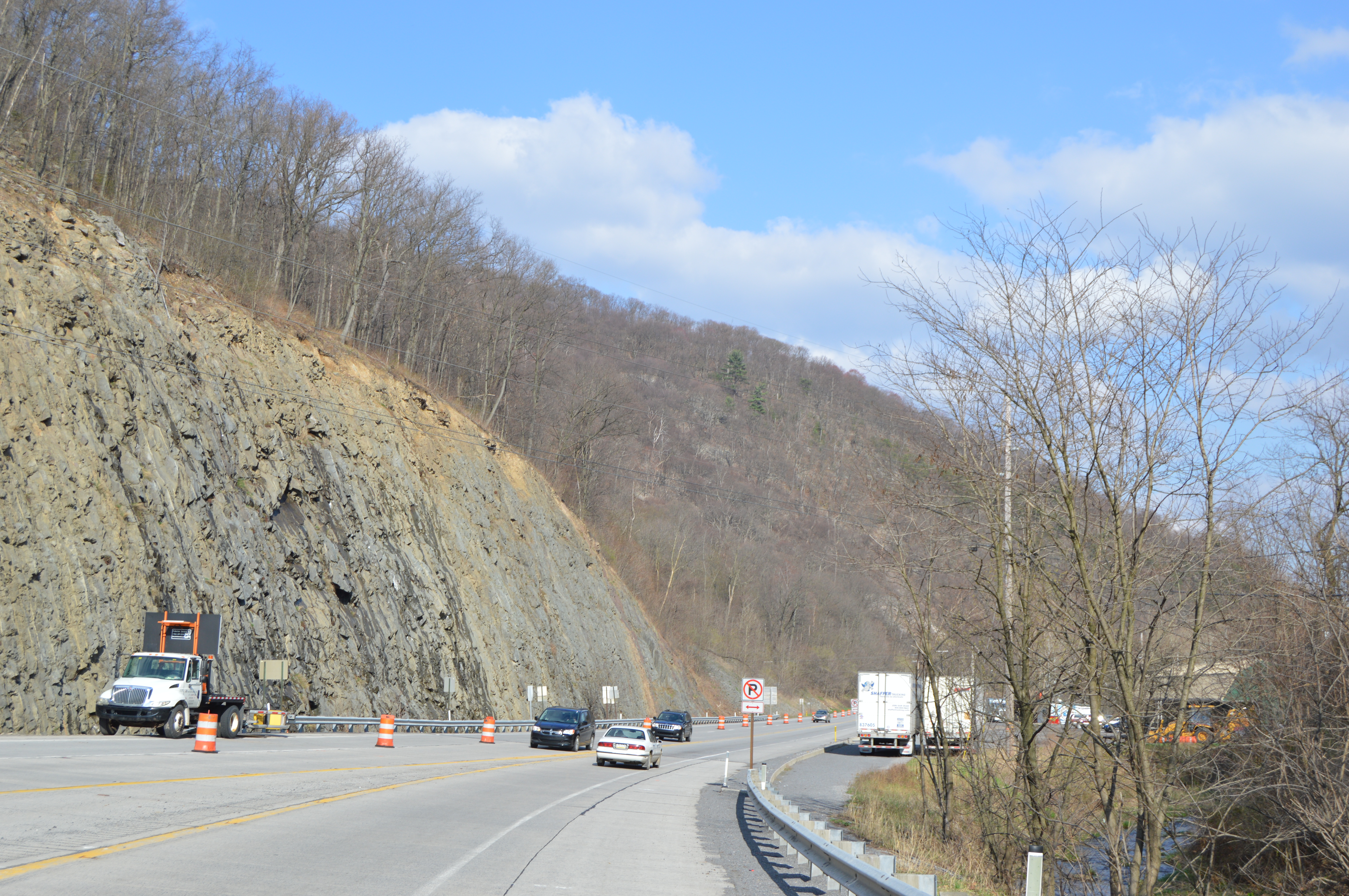 Looking eastward along U.S. Route 22, the old Frankstown Path, northwest of Alexandria in eastern Morris Township, Huntingdon County, Pennsylvania, United States.